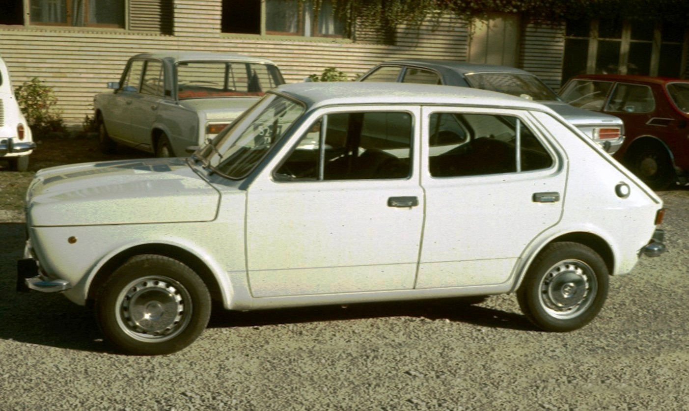 Seat 127 with four doors in northern Spain